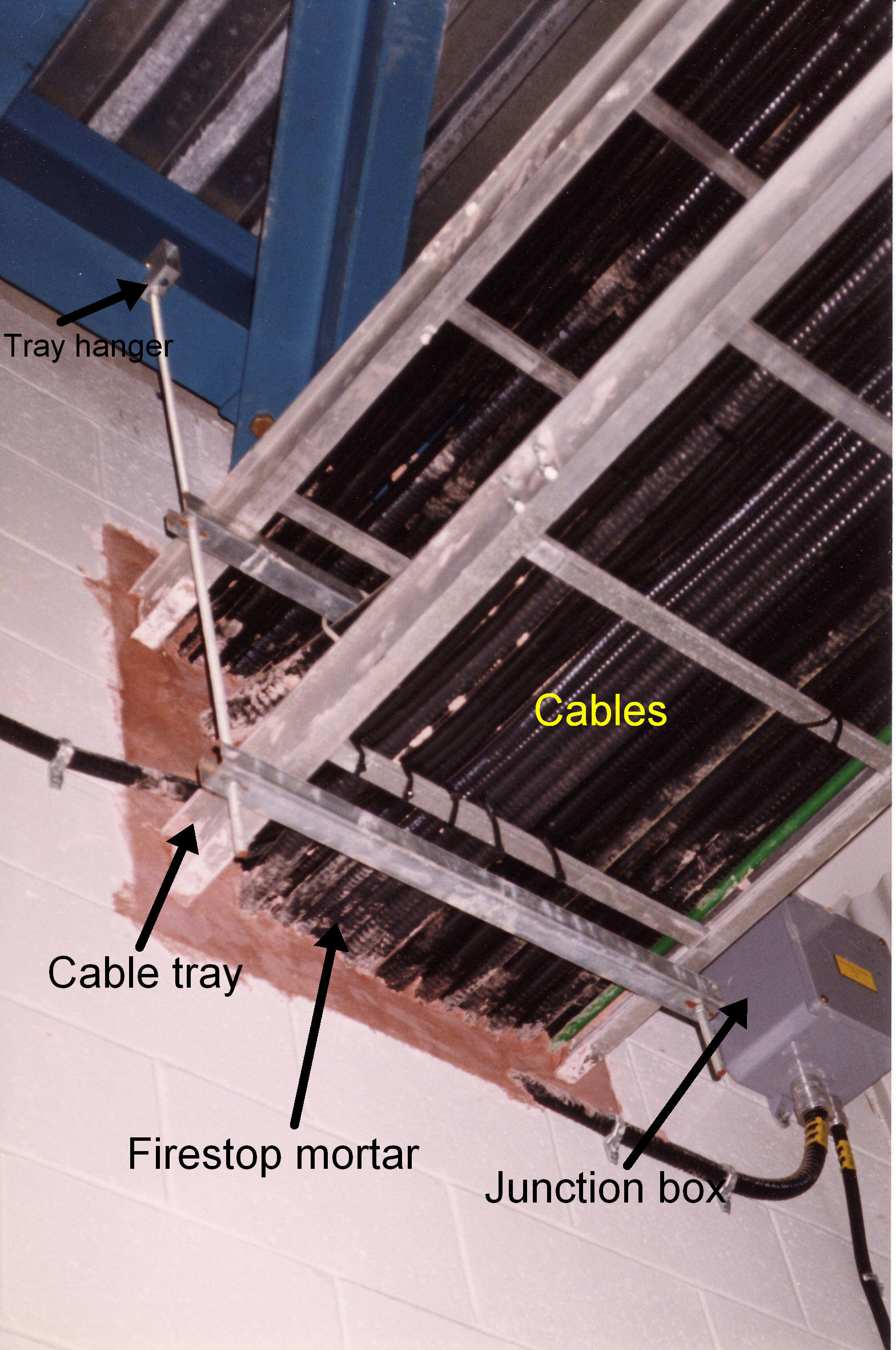 Firestopped Cable tray Penetration